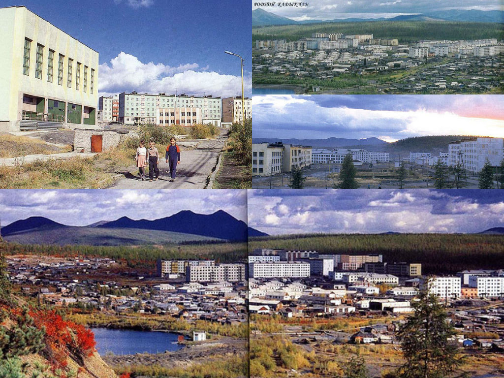 Pre-abandonment photos!